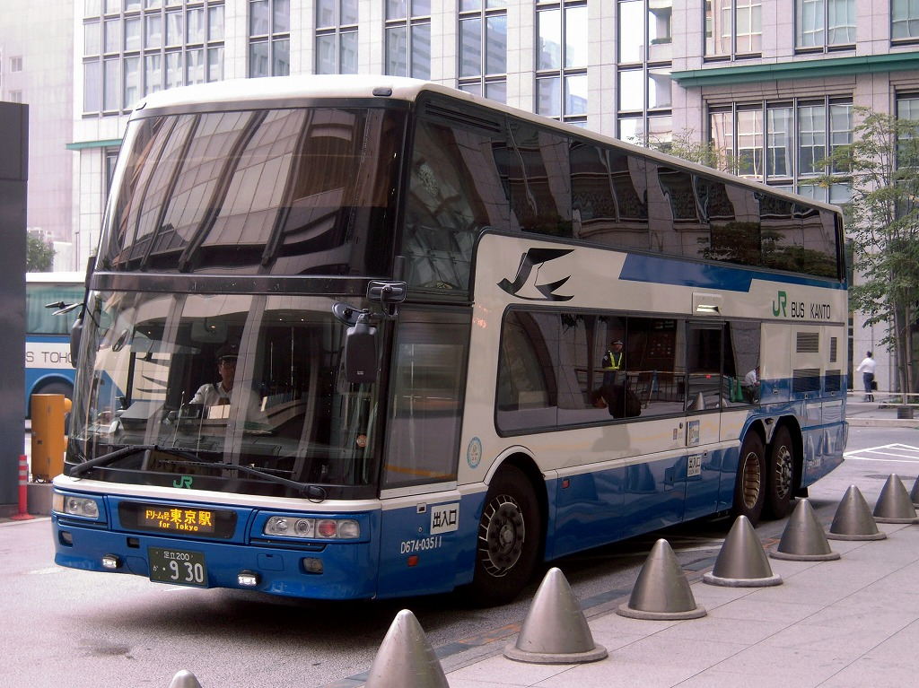 JR bus Kanto Mitsubishi Fuso Aero King Highwaybus "Dream" (Tokyo-Kyoto,Osaka,Kobe)